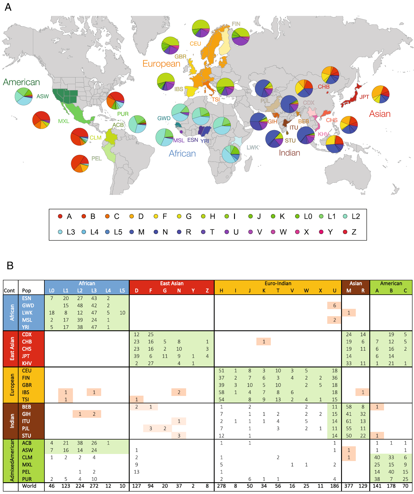 Global distribution of mtDNA haplogroups. 2,504 individuals across 26 populations, from 5 continental populations groups, characterized as part of the 1000 Genomes Project (1KGP) were analysed. (a) Map showing the names and locations of the 1KGP populations studied here along with pie charts showing the relative frequencies of mtDNA haplogroups for each population. The haplogroups are color coded as shown in the key. (b) Counts of mtDNA haplogroups for each 1KGP population. Haplogroup counts are hierarchically clustered along both axes. The y-axis corresponds to the 1KGP continental population groups, and the x-axis corresponds to previously characterized mtDNA macro-haplogroups. The continental origins of the mtDNA macro-haplogroups are shown. Mitochondrial haplogroups that show correspondence (i.e., are matched) between the 1KGP continental population groups and the mtDNA macro-haplogroups are shaded in green. Mismatched mtDNA haplogroups are shaded in orange.